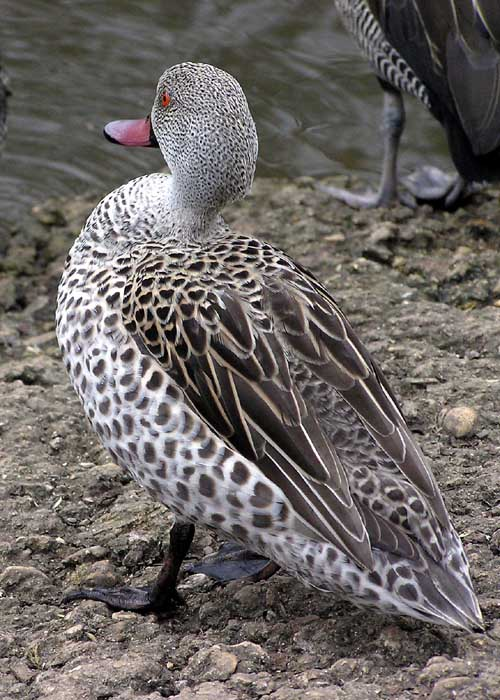 Cape Teal at Slimbridge Wildfowl and Wetlands Centre, Gloucestershire, England. Taken by Adrian Pingstone in March 2004 and released to the public domain.